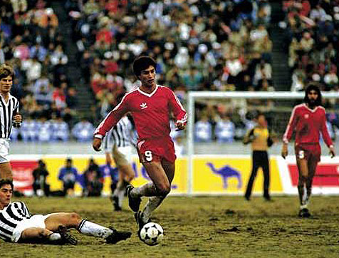 Claudio Borghi dribbling during the 1985 Intercontinental Cup match between Argentinos Juniors and Juventus.